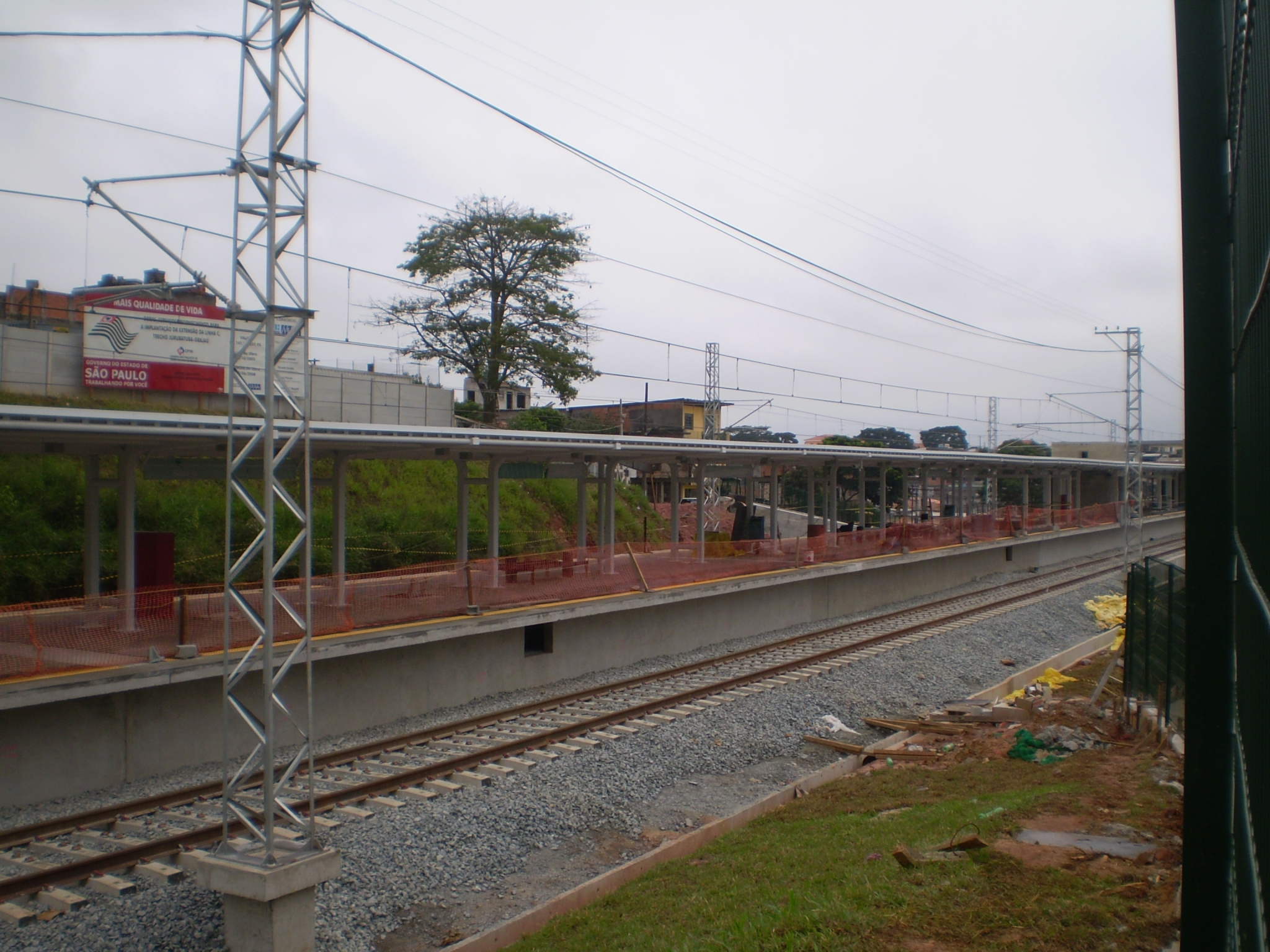 Photo Interlagos Station